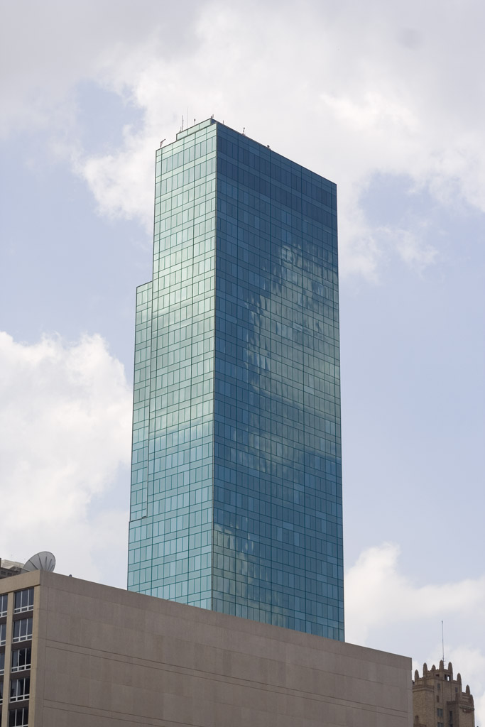 Buidling in downtown Fort Worth